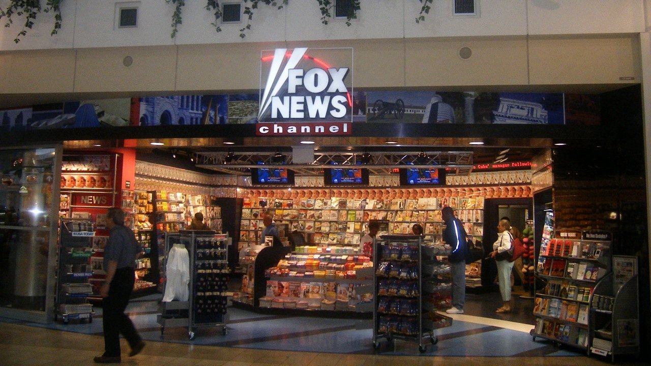 Fox News stand at Minneapolis-Saint Paul International Airport